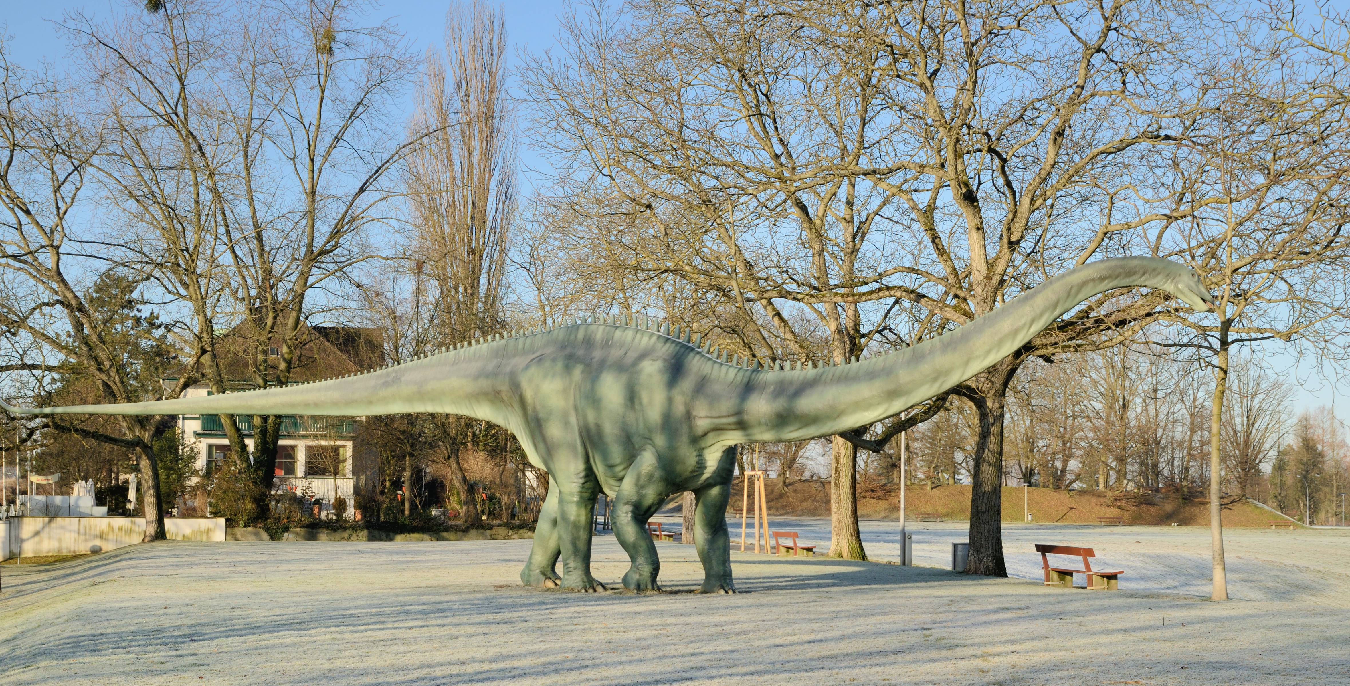 Basel: sculpture of a dinosaur (Diplodocus)